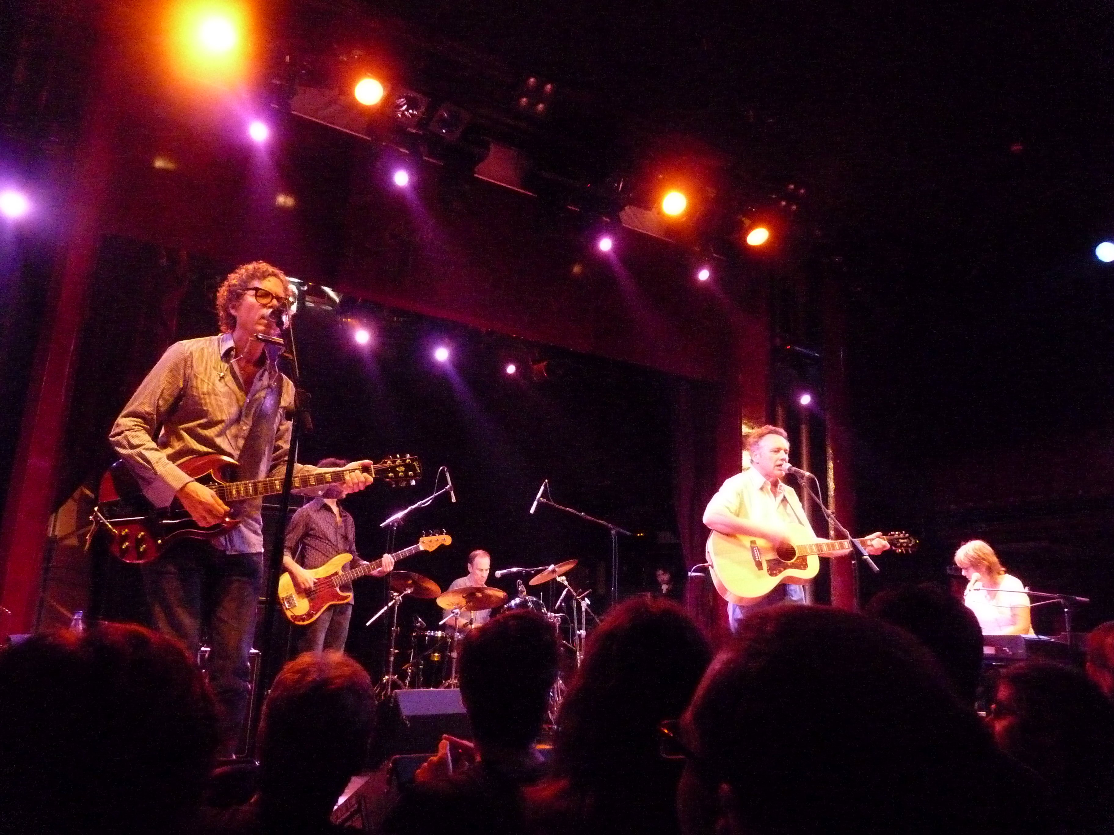 Sala Apolo Barcelona 25/09/2012